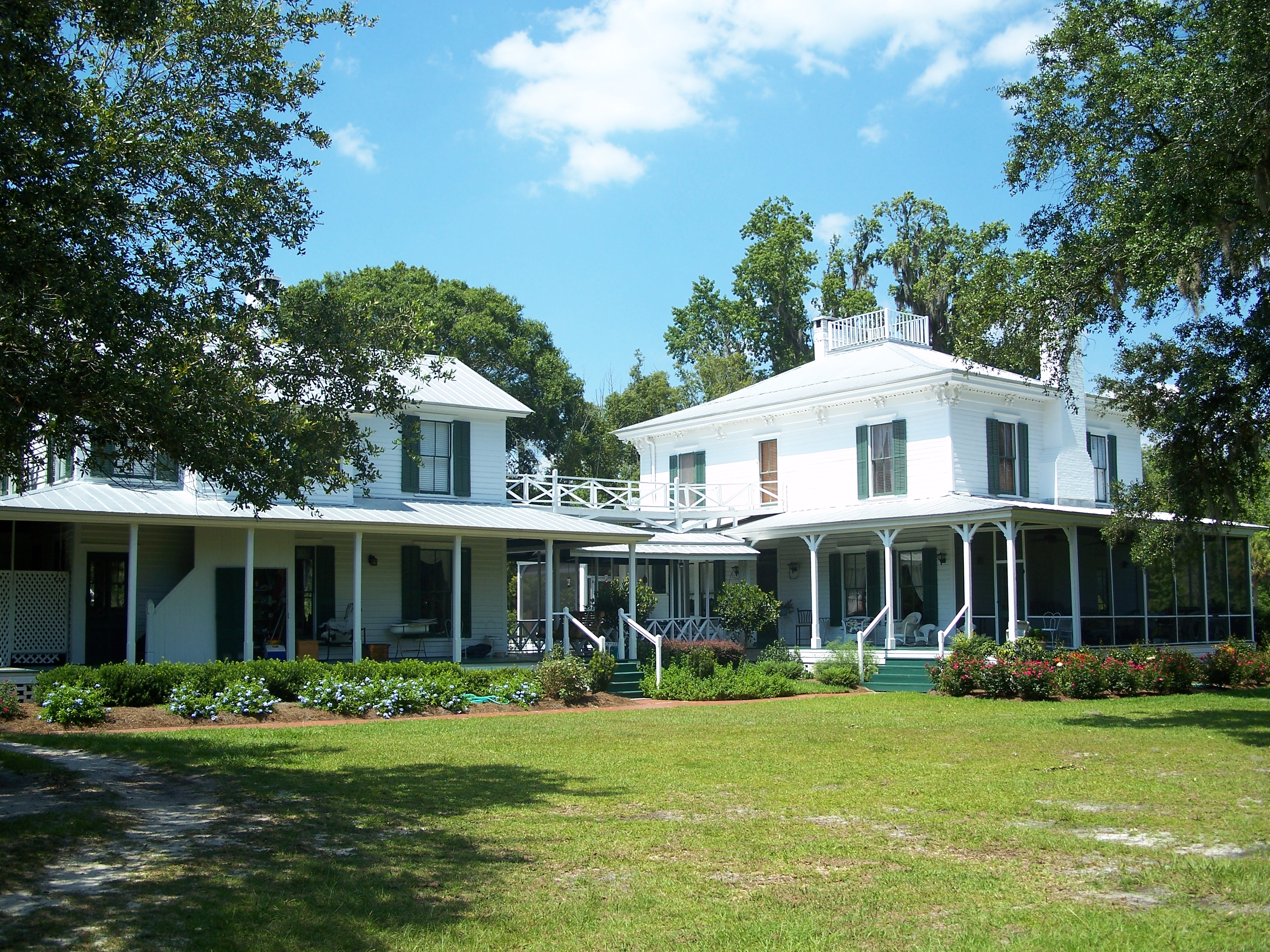 House in the Glen Saint Mary Nurseries Company neighborhood/district, in Glen St. Mary, Florida